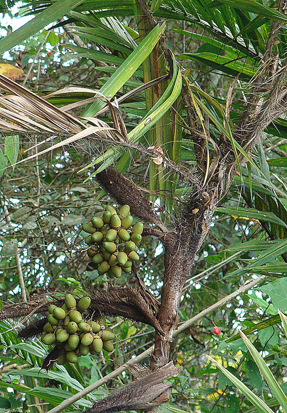 These fruit of the thorny Huiscoyol Palm are widely enjoyed (when ripe). Photo from Rio Papaturro, southernmost Nicaragua. In context at